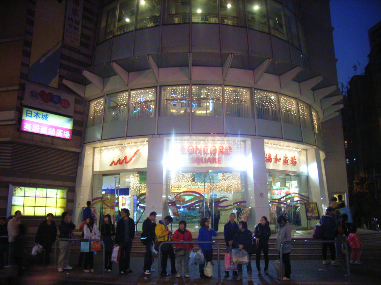 荃灣川龍街荃灣協和廣場